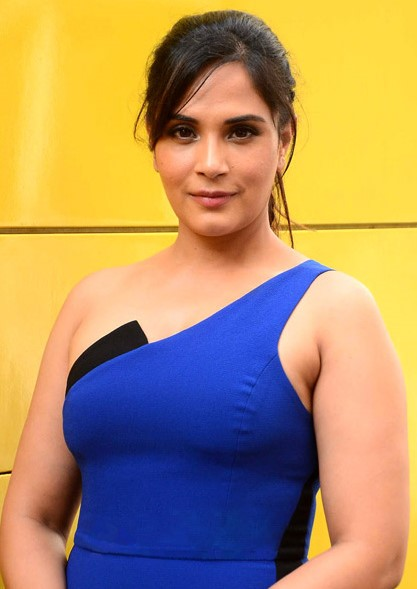 Richa Chadda promotes Amazon web series.